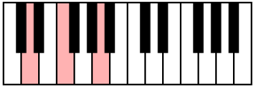 di minor chord